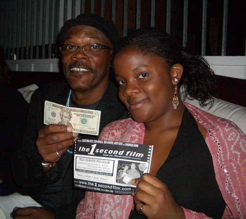 Samuel L. Jackson and daughter Zoe Jackson at the Independent Film Festival of Los Angeles holding a $20 bill and producer credit for The 1 Second Film